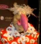 Dustin the Turkey, taken at Scala, London